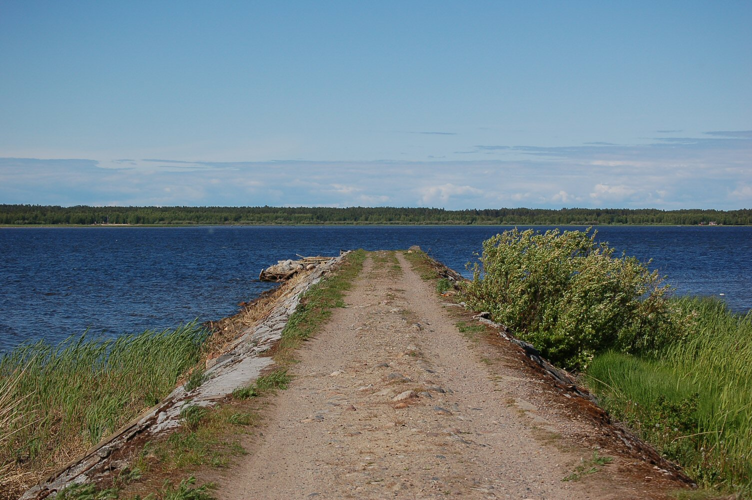 Petsamo pier in Ulkokarvo, Hailuoto, Finland.